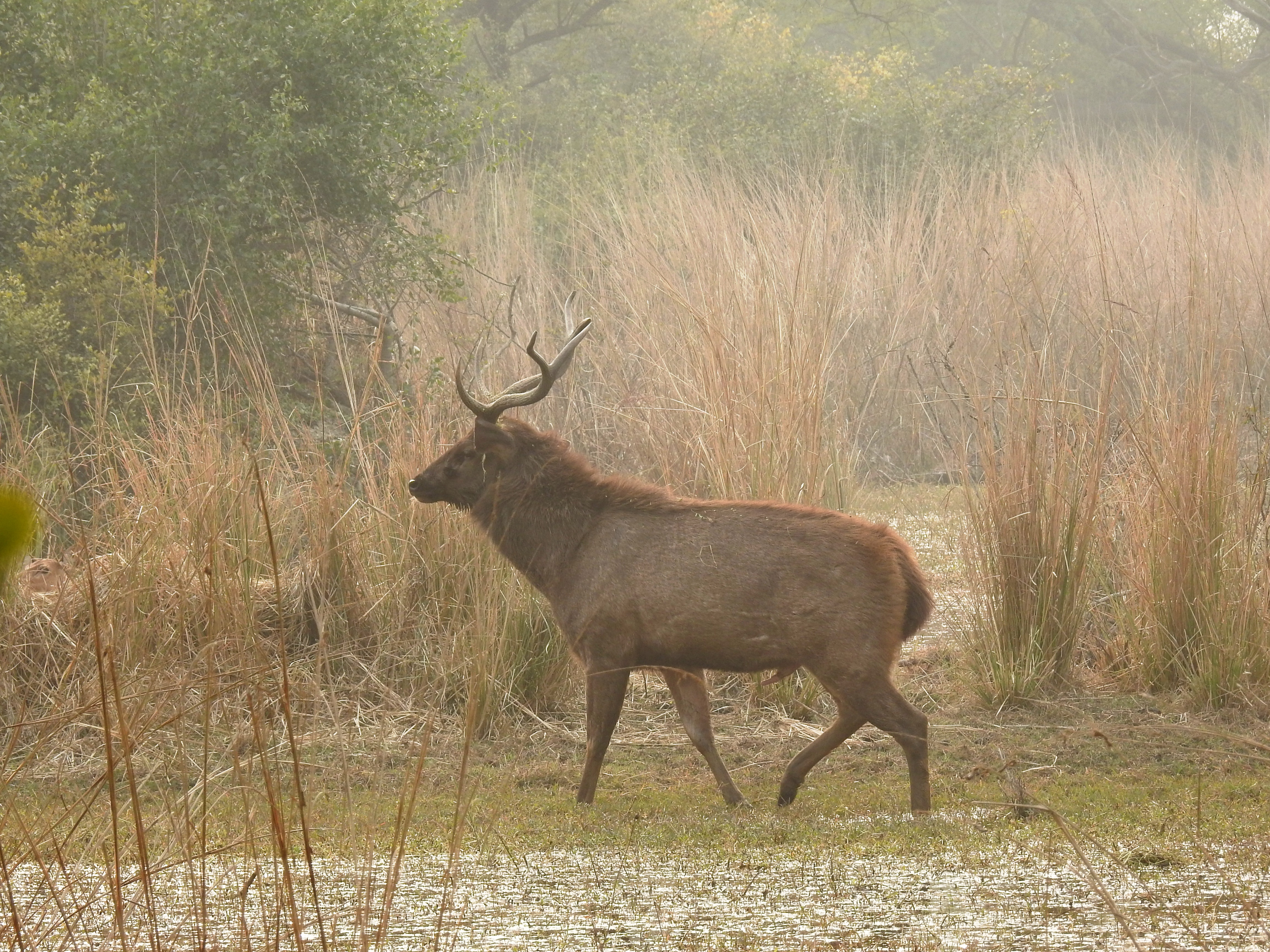 मराठी नाव: सांबर